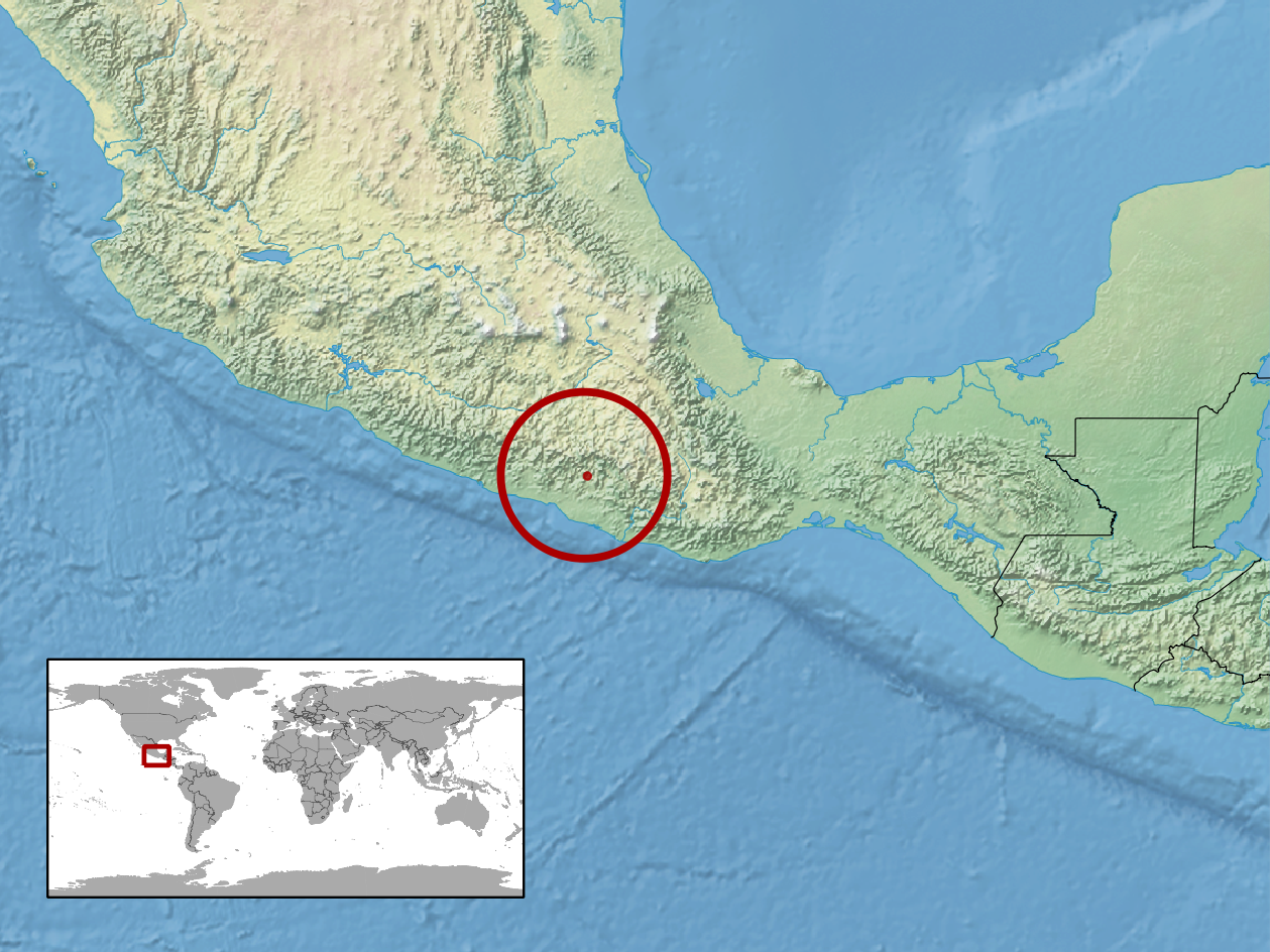 geographic distribution of Xenosaurus penai (Native: Mexico)